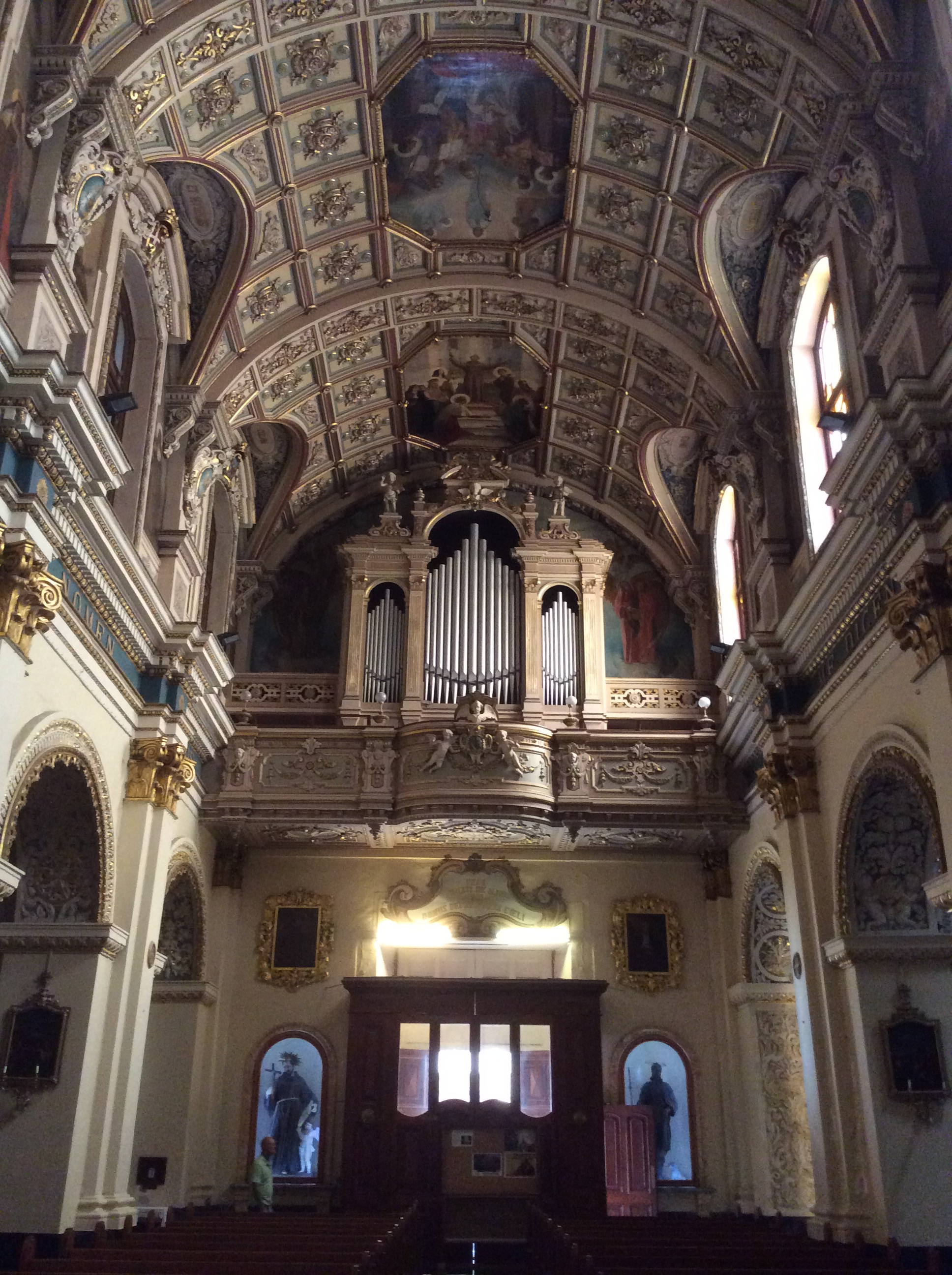 Ta Giezu Church